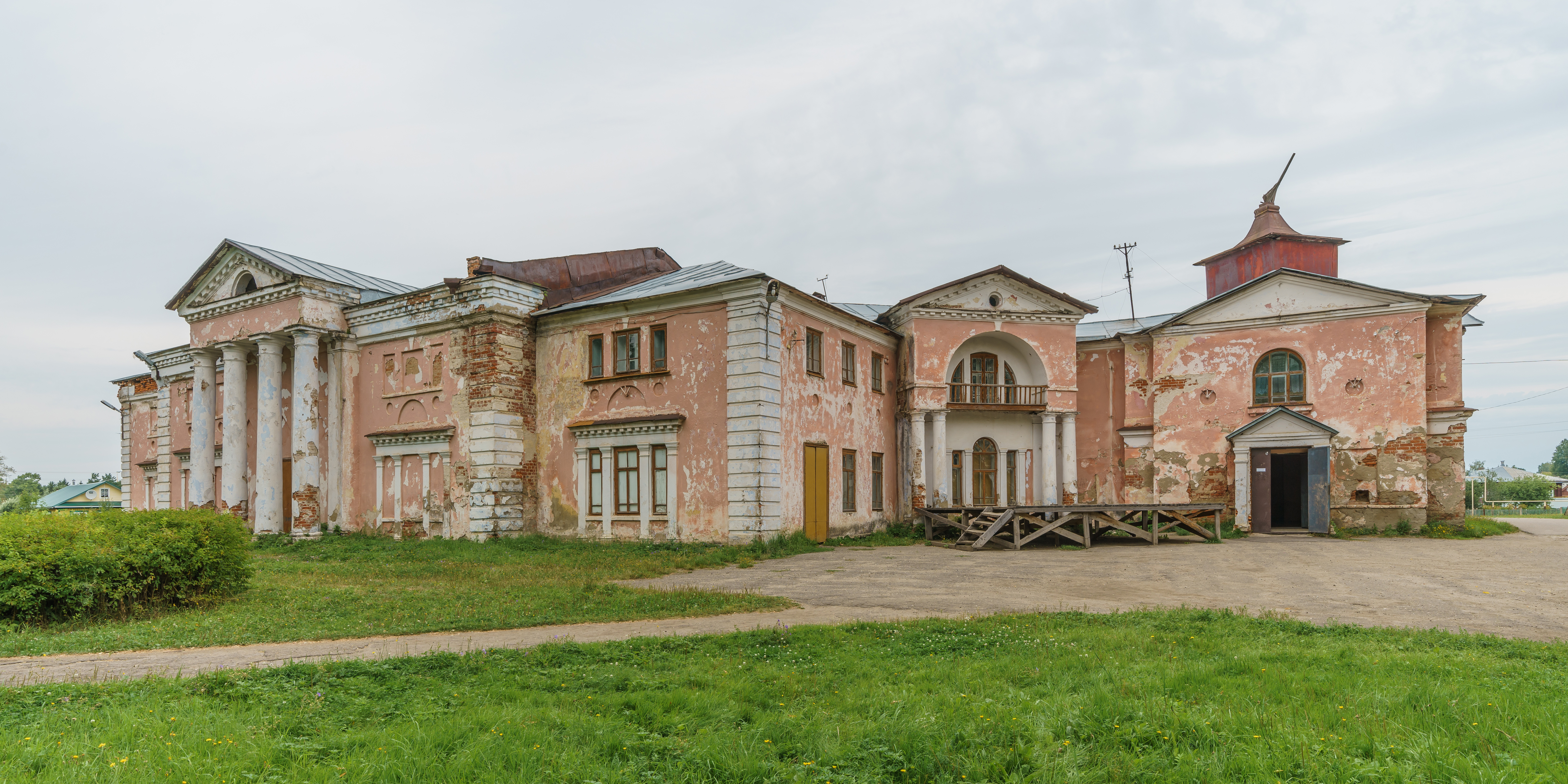 Ensemble of the former Tatischev Estate in Staraya Vichuga, Ivanovo Oblast, Russia.